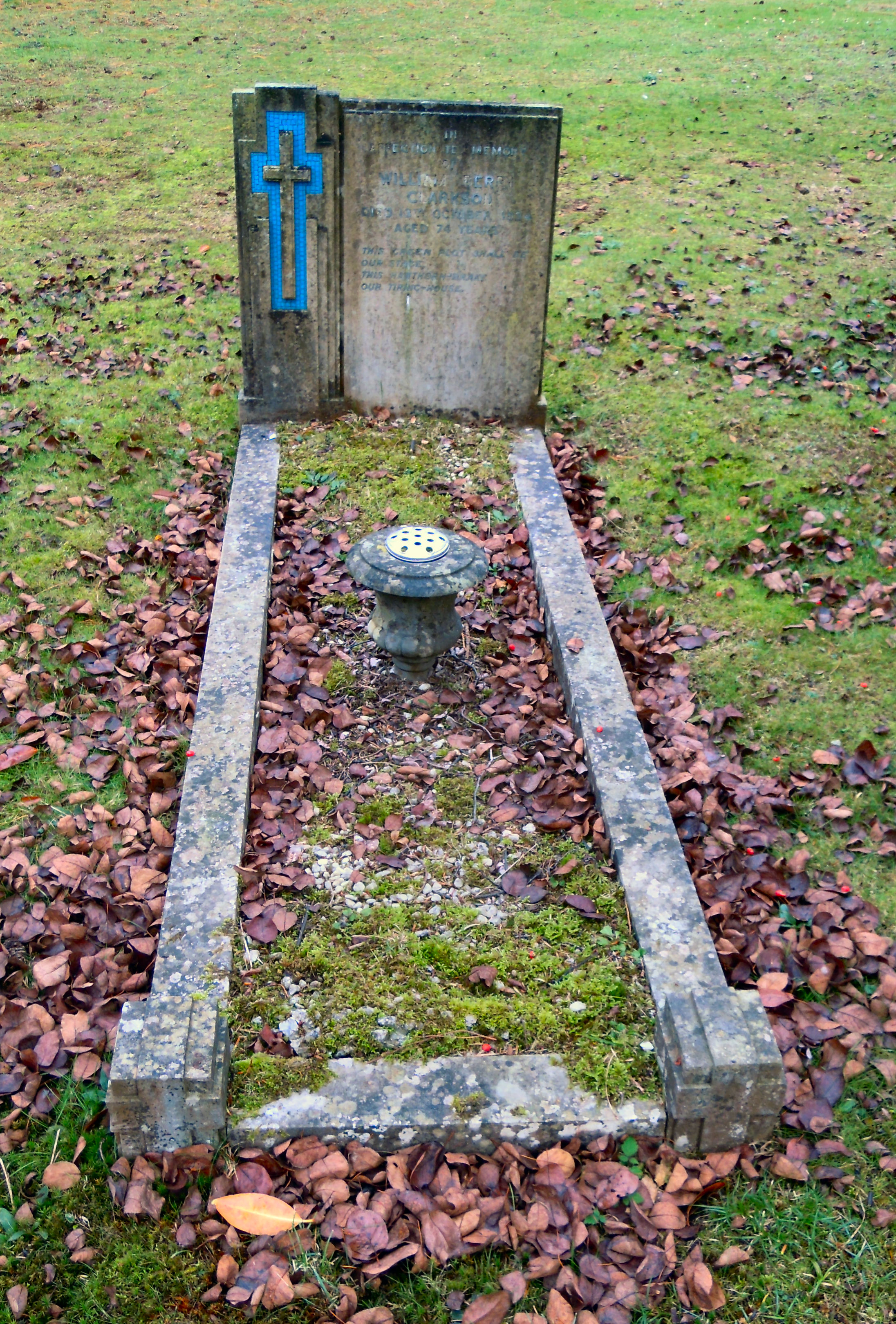 The grave of Willy Clarkson in Brookwood Cemetery